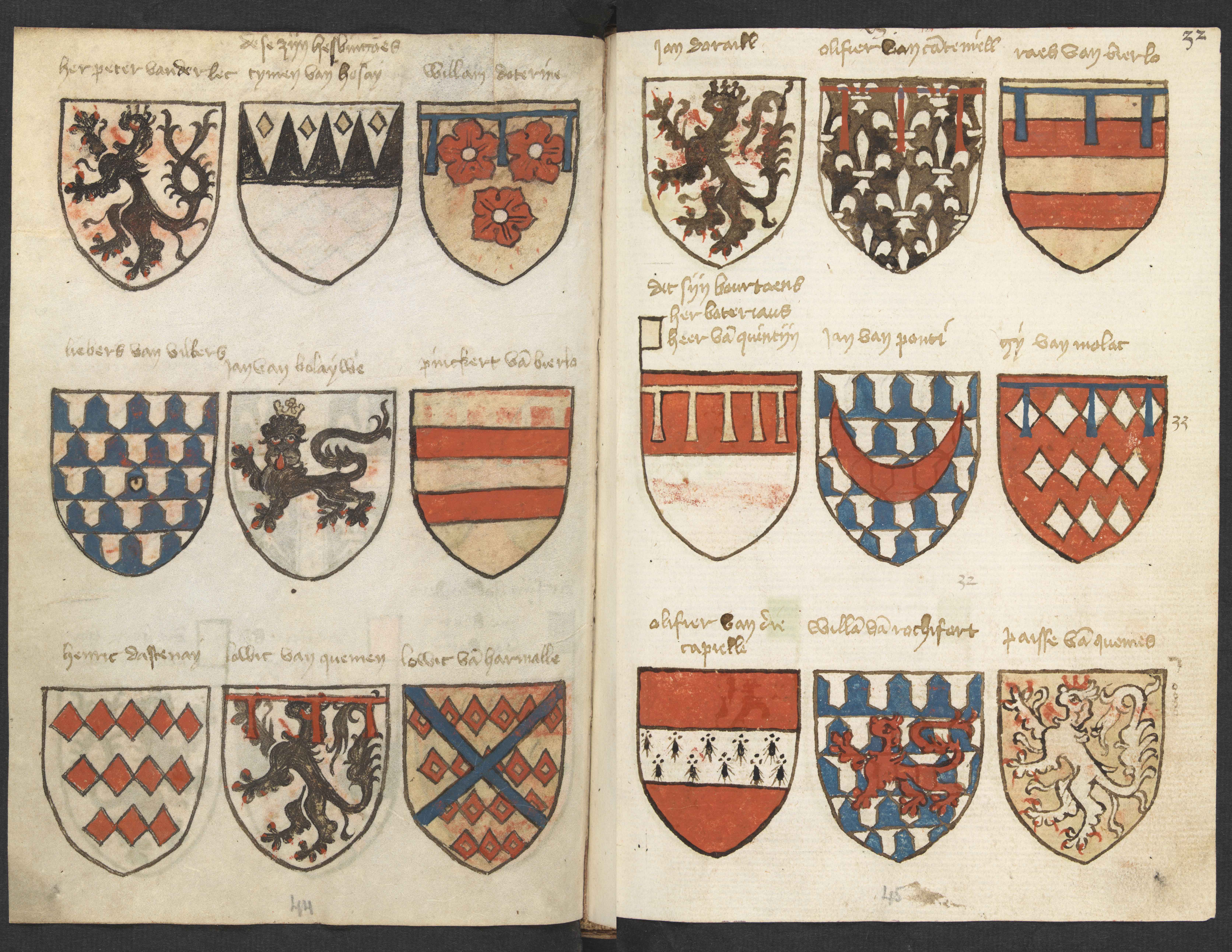 Lefthand side folio 031v; righthand side folio 032r from the Beyeren armorial / Wapenboek Beyeren